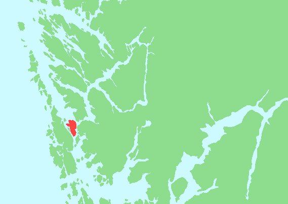 Locator map of Litlesotra, Hordaland, Norway